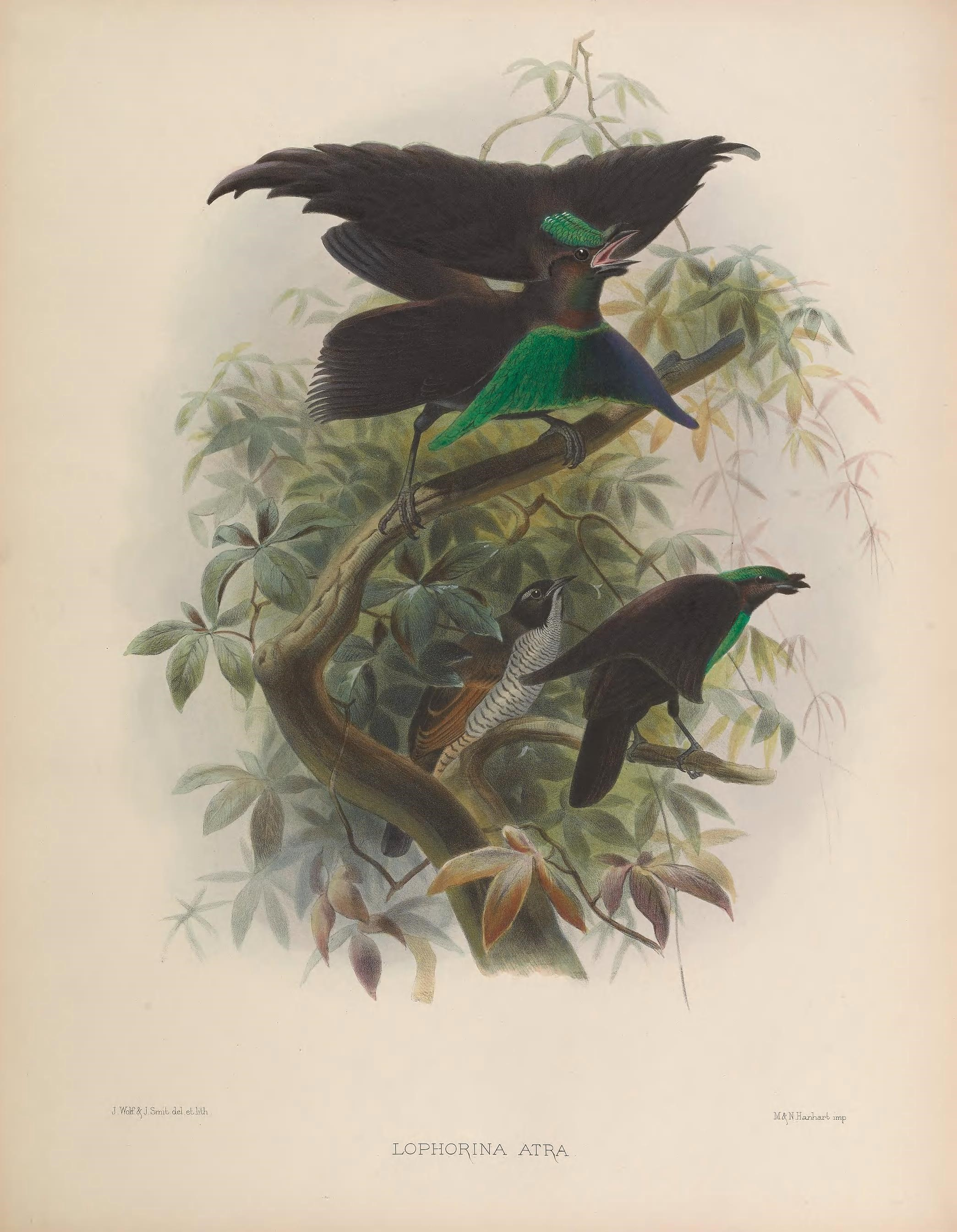 Drawing of 1873